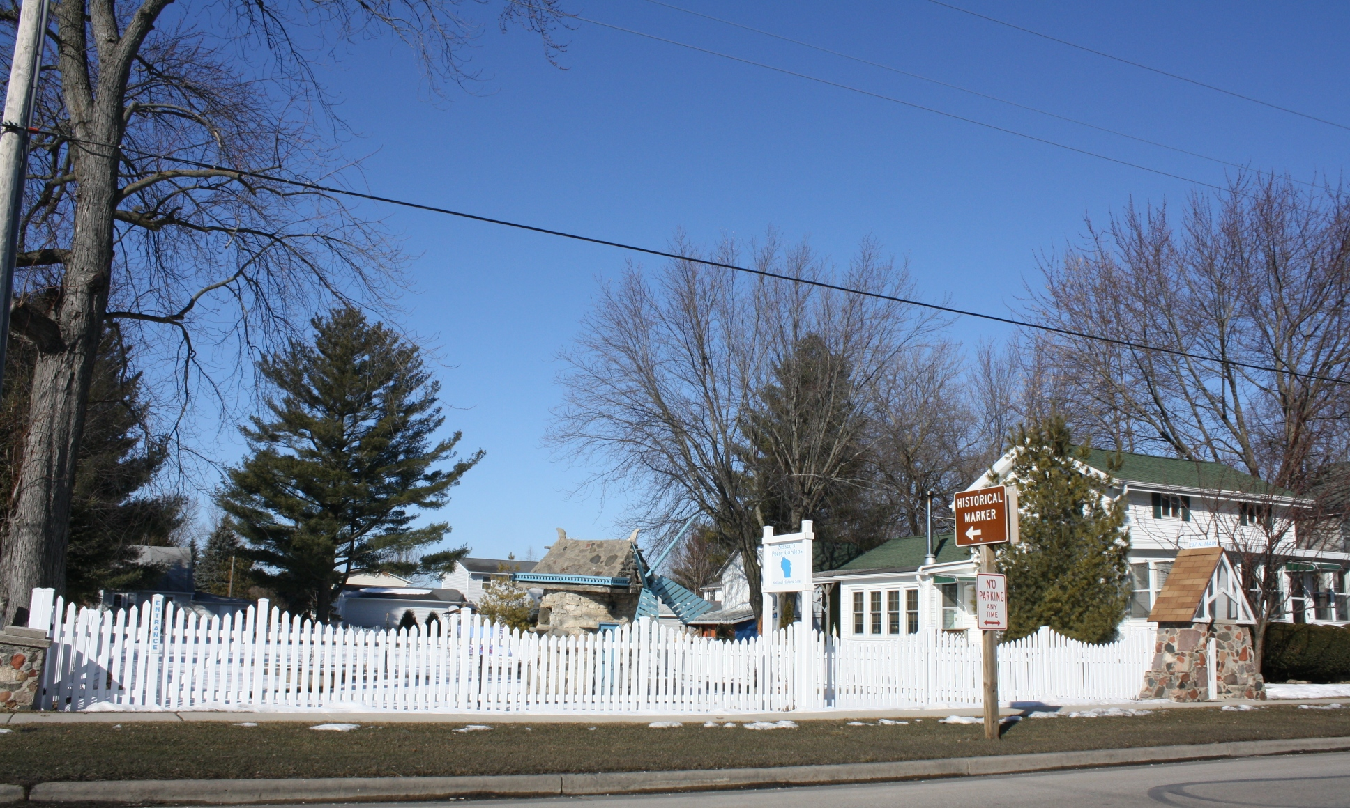 The Sisson's Peony Gardens in Rosendale, Wisconsin along Wisconsin Highway 26. It is listed on the National Register of Historic Places.